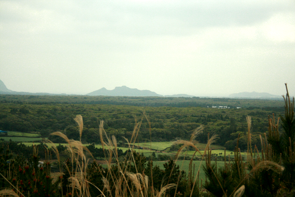 The Gotjawal Forest, on Jeju-do Island, off South Korea. Seen from the Peace Museum in the western part of Jeju-do. The Gotjawal Forest is very rare on the island and in South Korea, because most of the flat terrain has already been developed for agricultural or industrial purposes - in this densely populated island and country.